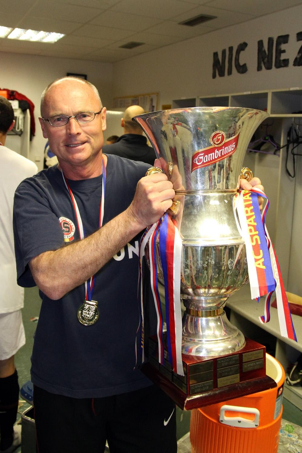 Czech football coach.